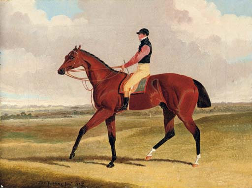 Theodore, winner of the 1822 St. Leger Stakes.